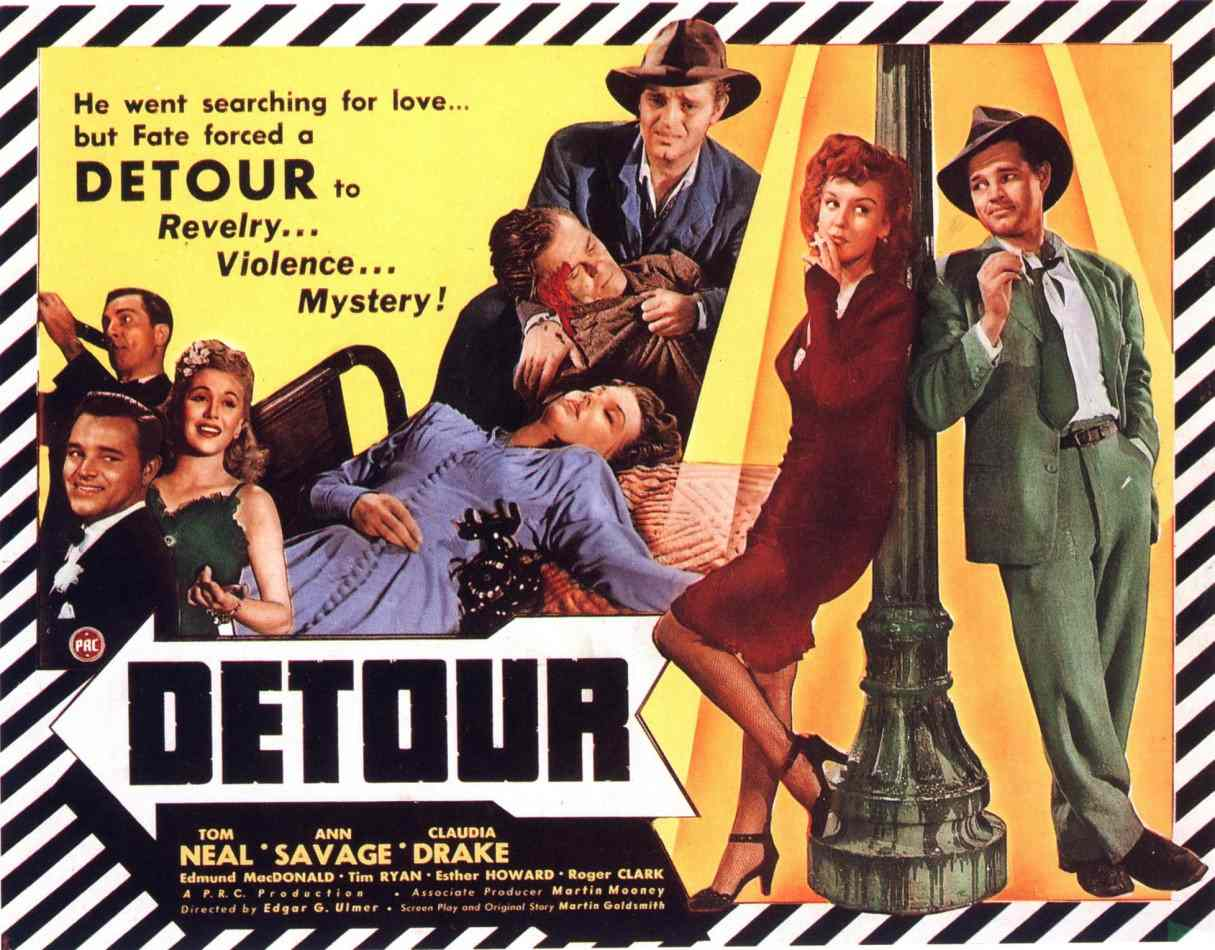 Description: Low-resolution image of poster for the film Detour (1945), directed by Edgar G. Ulmer